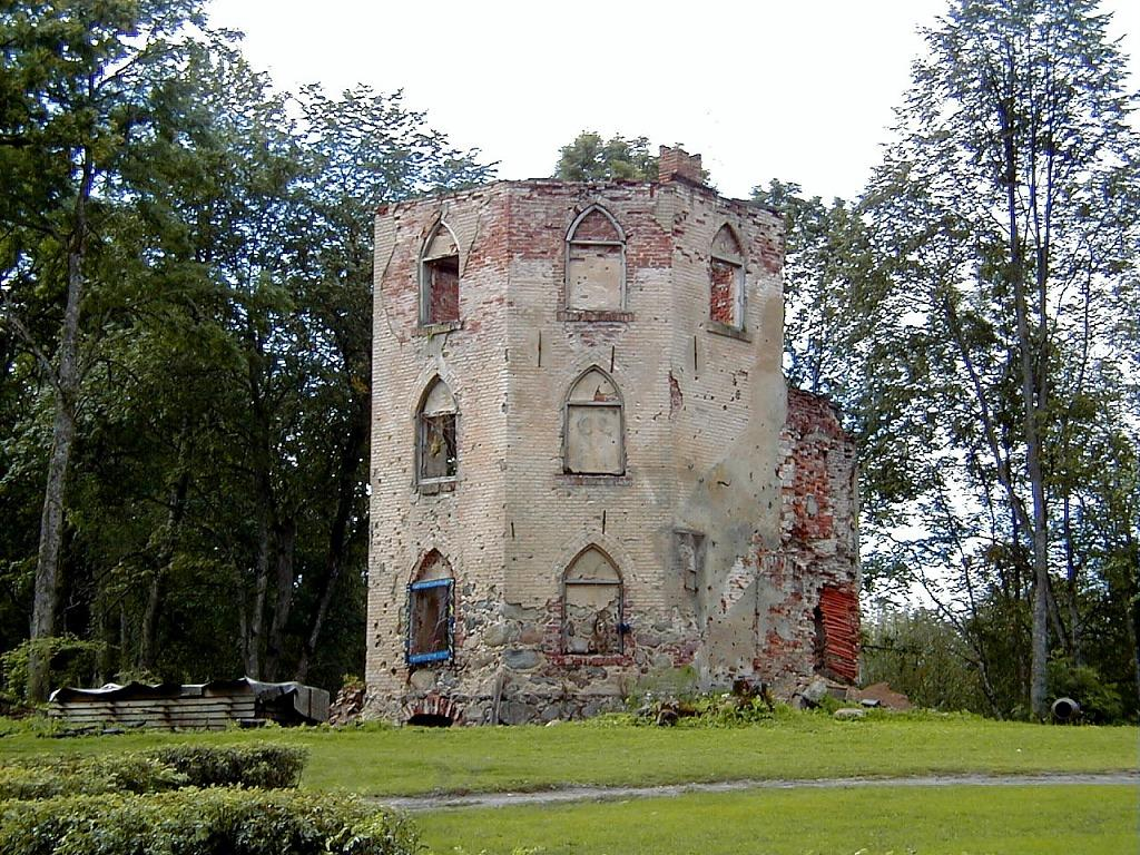 Cirsti Manor Detached Tower (before restoration)